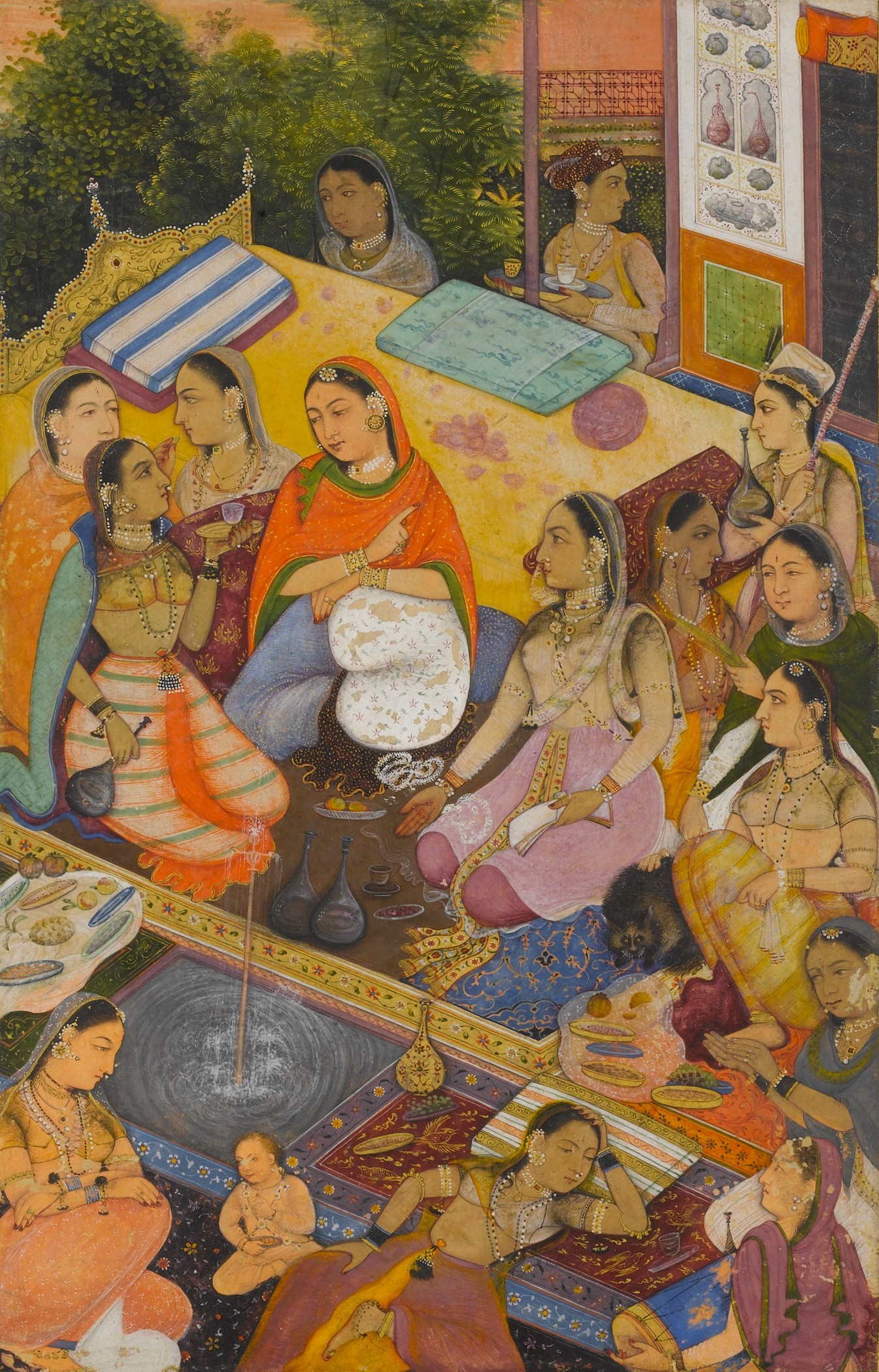 Illustrated album leaf; Codices